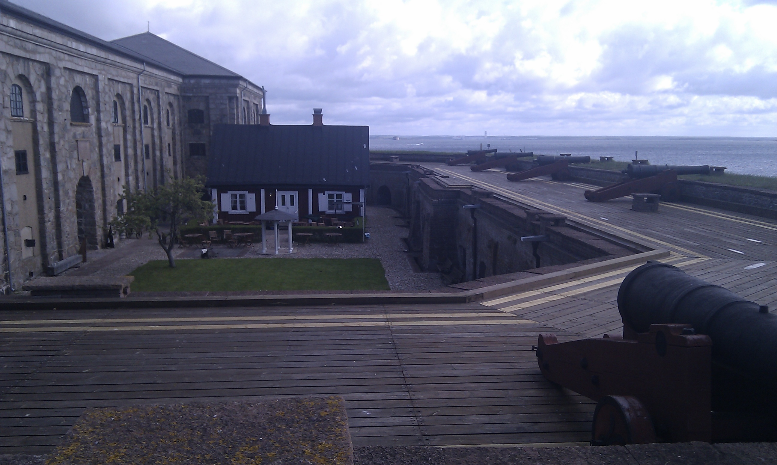 The Drottningsskär Fortress on Aspö Island outside Karlskrona, Sweden